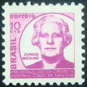 Eunice Weaver on a square Brazilian postage stamp issued in 1972. The stamp is violet in color, with a portrait of Weaver as an older woman in a circle, and the words "correio 10 Brasil Eunice Weaver" legible in the square.